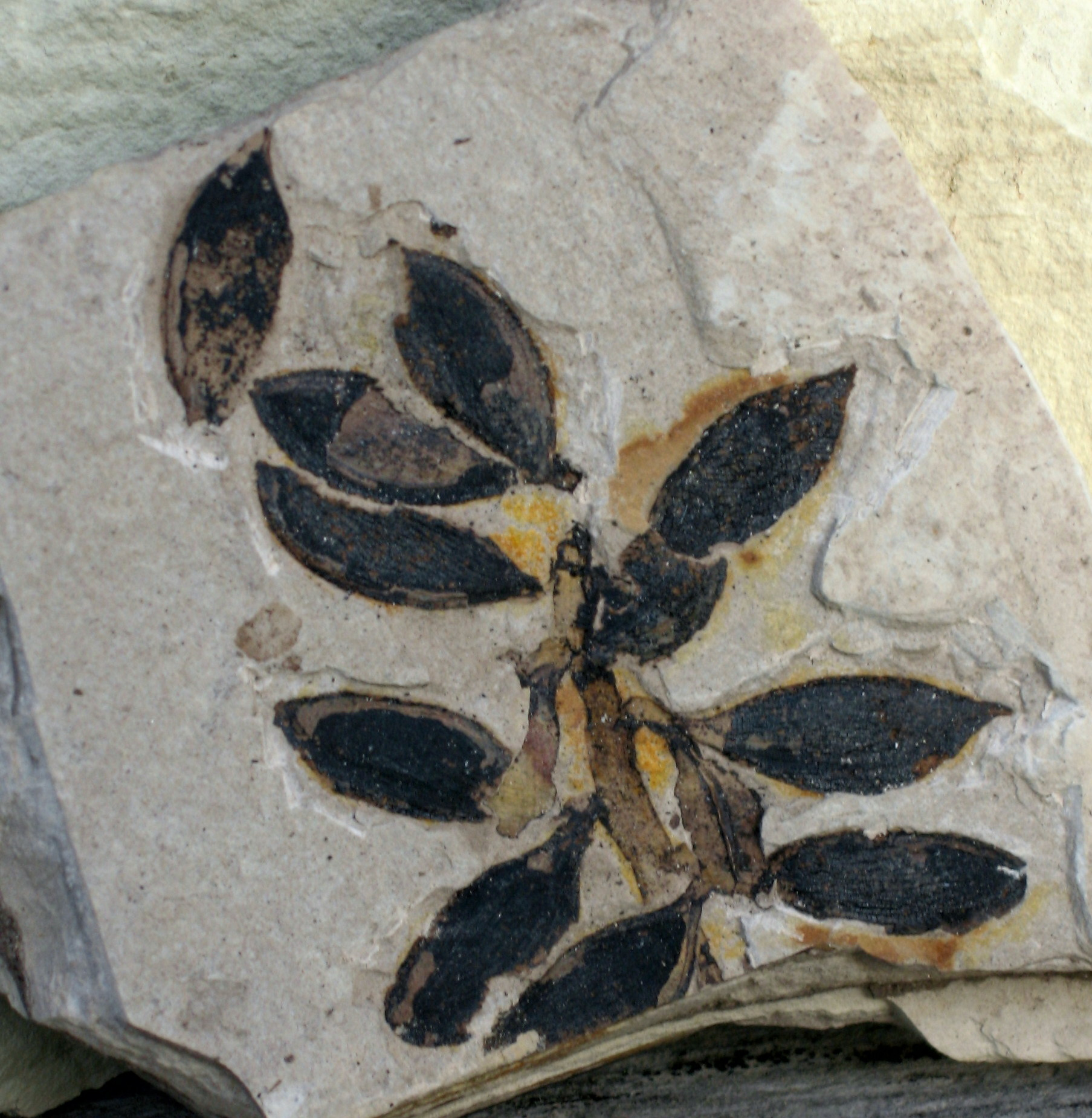 Cercidiphyllaceae fruits up to 2cm long forming an infructecence. Klondike Mountain Formation, Republic, Ferry County, Washington, USA, Eocene, Ypresian, 49million years old. Stonerose Interpretive Center Collection #